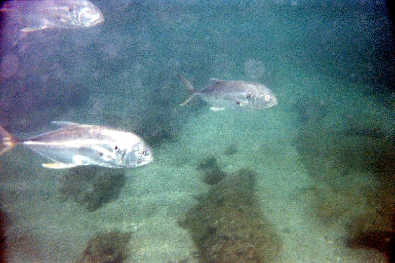 Template follows: Description Jupiter, FloridaDate 1 June 2006, 13:14Source JacksAuthor Clinton & Charles Robertson from Del Rio, Texas & San Marcos, TX, USA Licensing